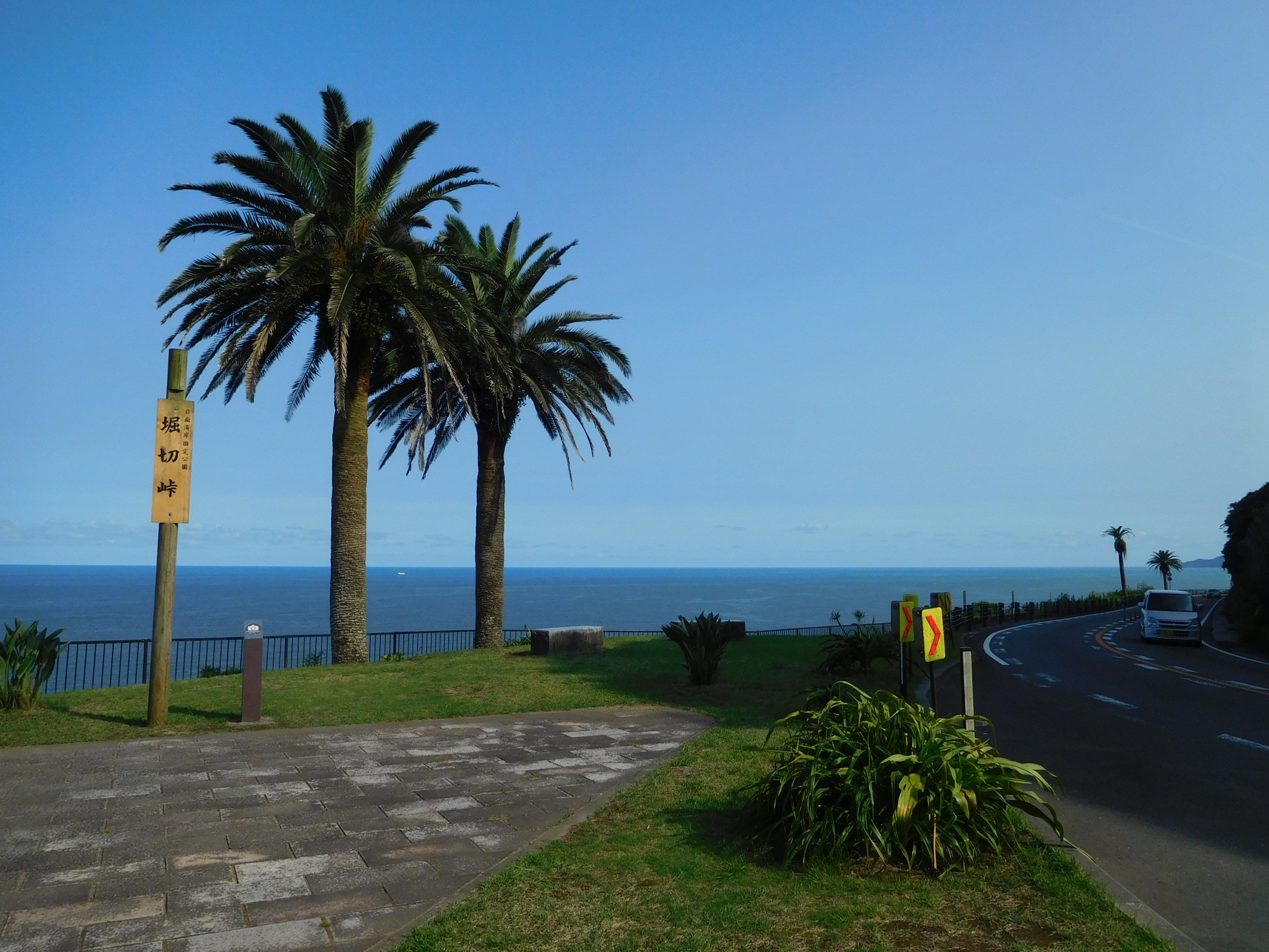 Horikiri Pass in Miyazaki City, Japan (July, 2016))